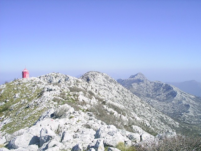 Mosor Mountains in Croatia